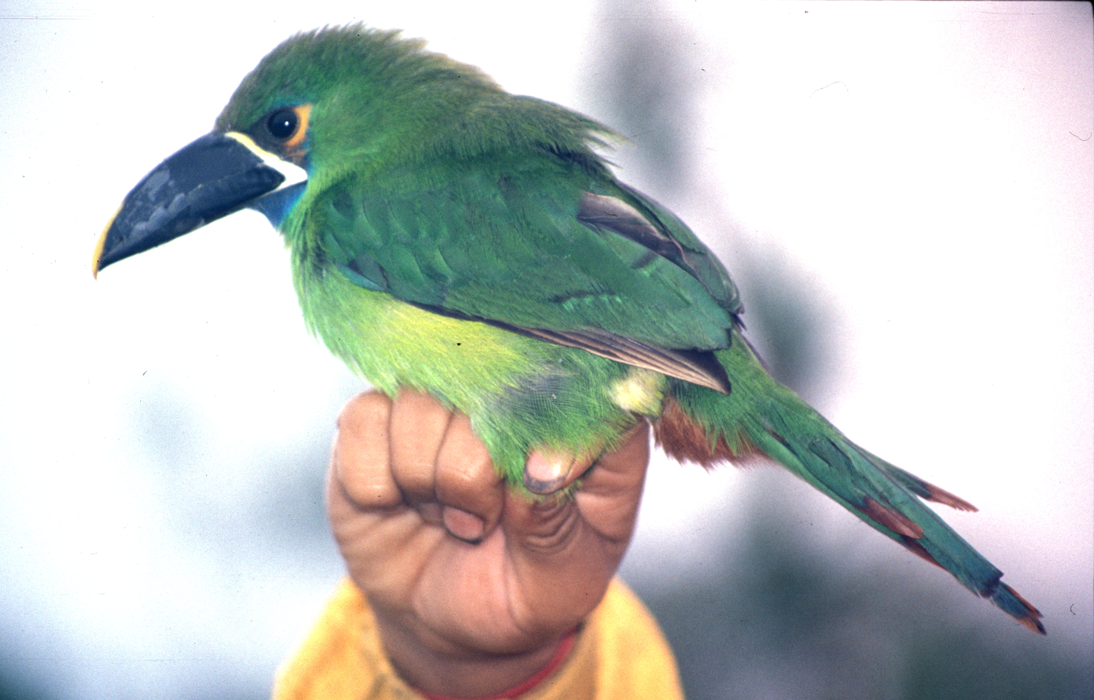 Black-throated Toucanet (Aulacorhynchus atrogularis cyanolaemus) from Cordillera del Cóndor in south Ecuador